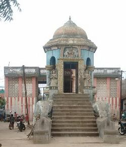 Thanjavur vijayamandapa thyagarajar temple தஞ்சாவூர் விஜயமண்டப தியாகராஜர் கோயில்